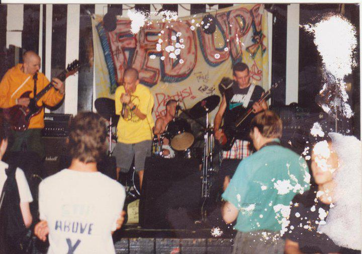 Fed Up! Live in Richmond, Va. 1988